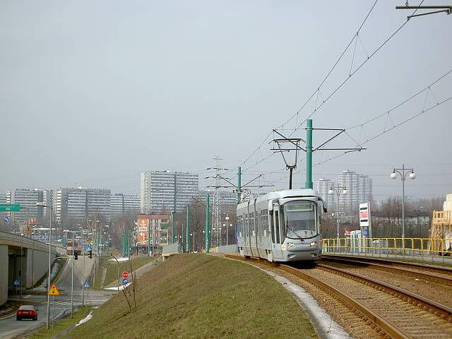 A passing loop on a narrow street in Lipiny